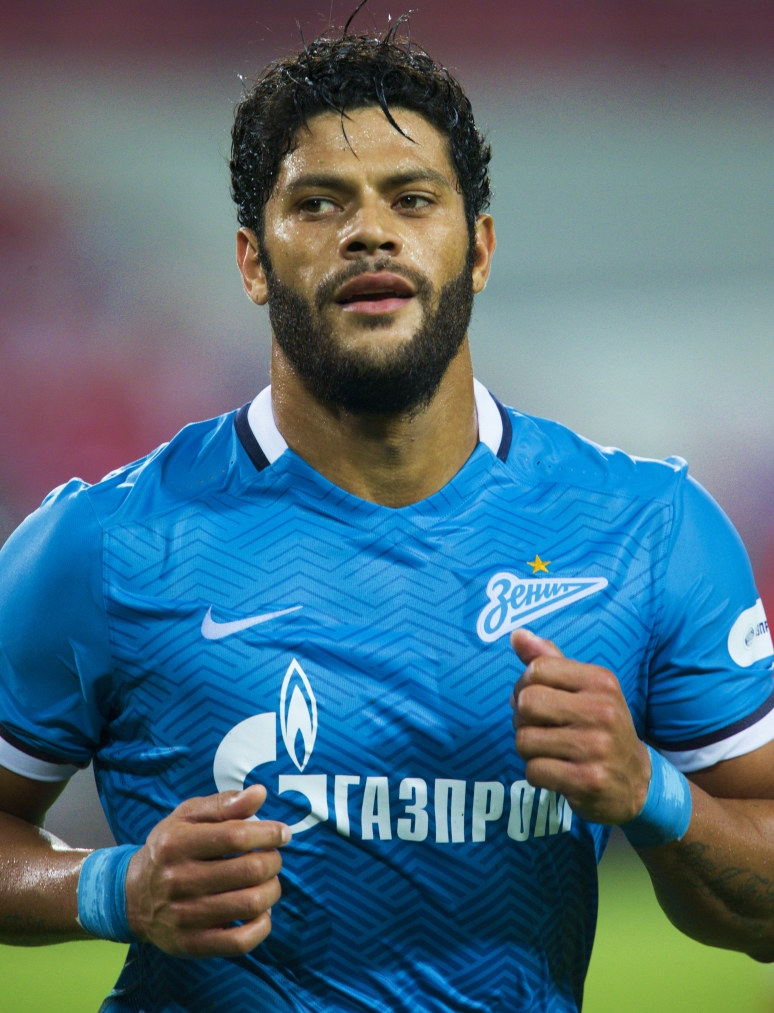 Hulk (footballer)